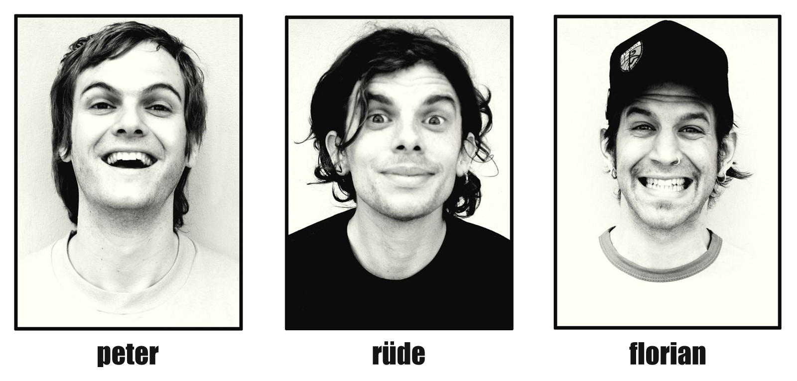 German rock band Sportfreunde Stiller